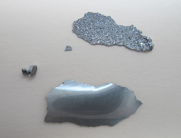 Osmium crystals